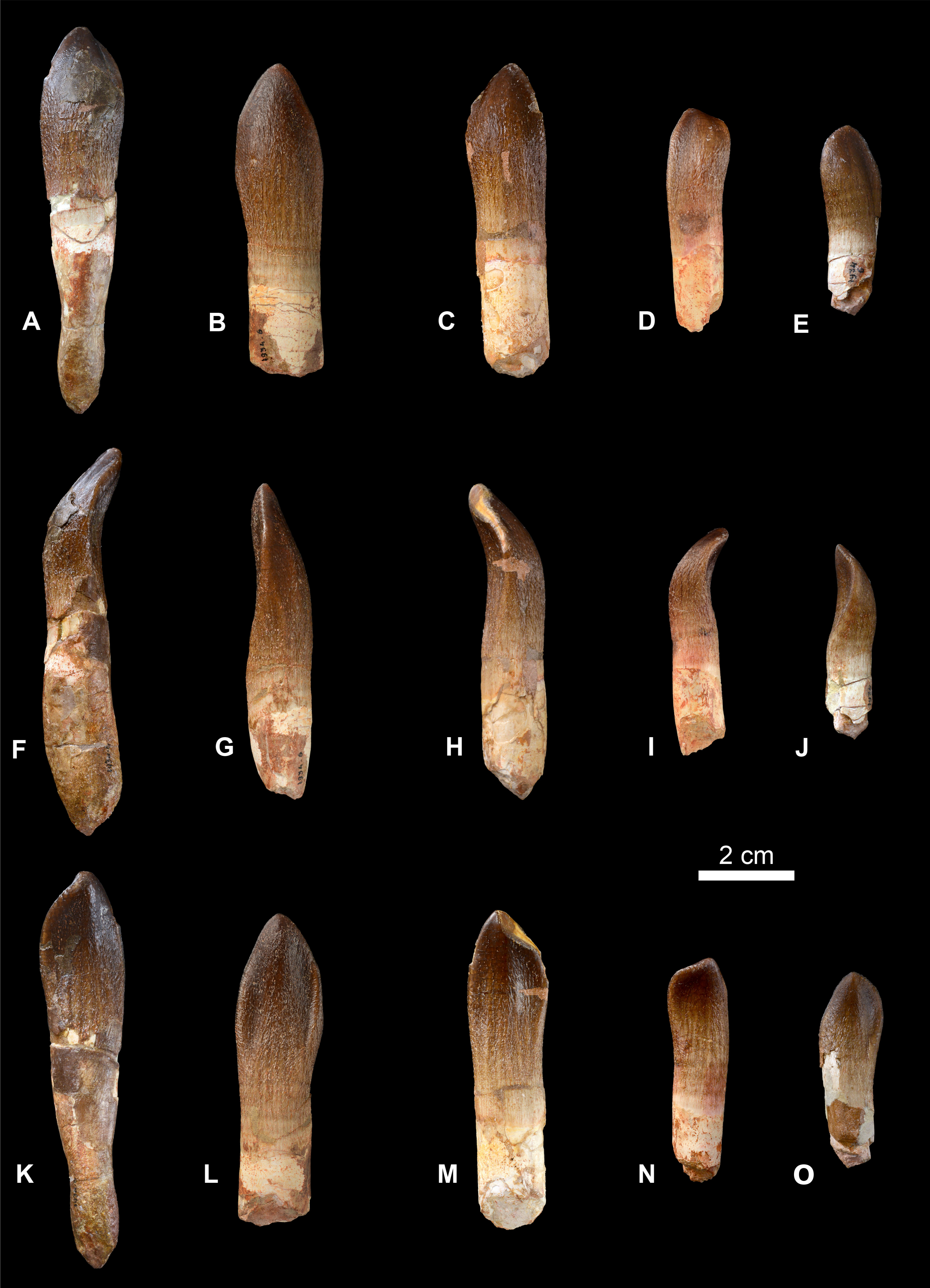 Teeth of Vouivria damparisensis (MNHN.F.1934.6 DAM1–DAM 5). (A–E) labial views, (F–J) mesial views, (K–O) lingual views; (A, F, K) DAM 1, (B, G, L) DAM 2, (C, H, M) DAM 3, (D, I, N) DAM 4, (E, J, O) DAM 5. Scale bar equals 20 cm.